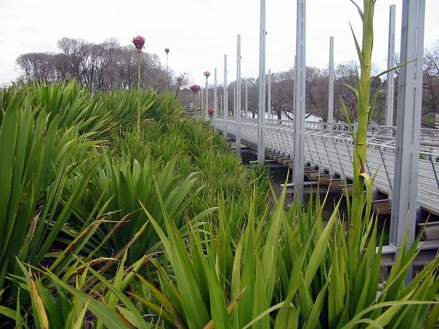 A diverse range of plants, including the Doryanthes shown, were planted at Birrarung Marr. Author: Evan Cottle